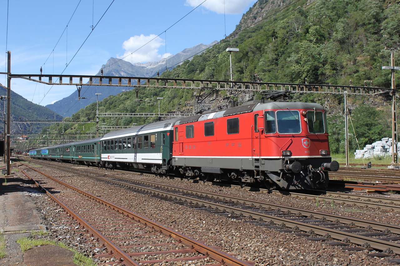 SBB CFF FFS Re 4/4 II 11172 (former MThB Re 4/4 II 21) passing through Biasca ahead of EXT 33045 Basel SBB — Bellinzona.